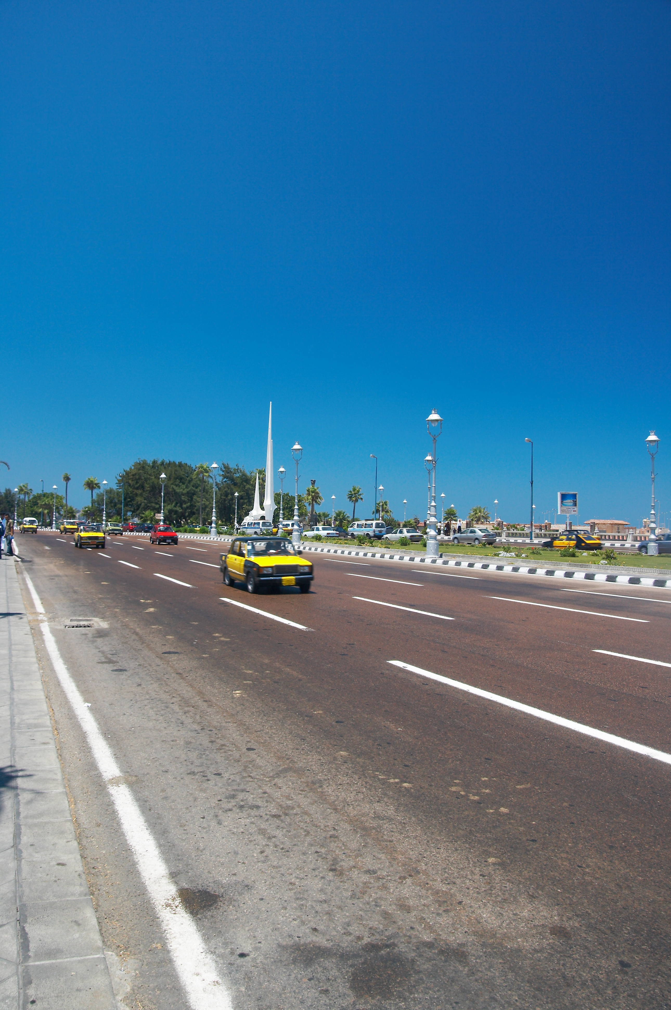 Alexandria, Egypt.